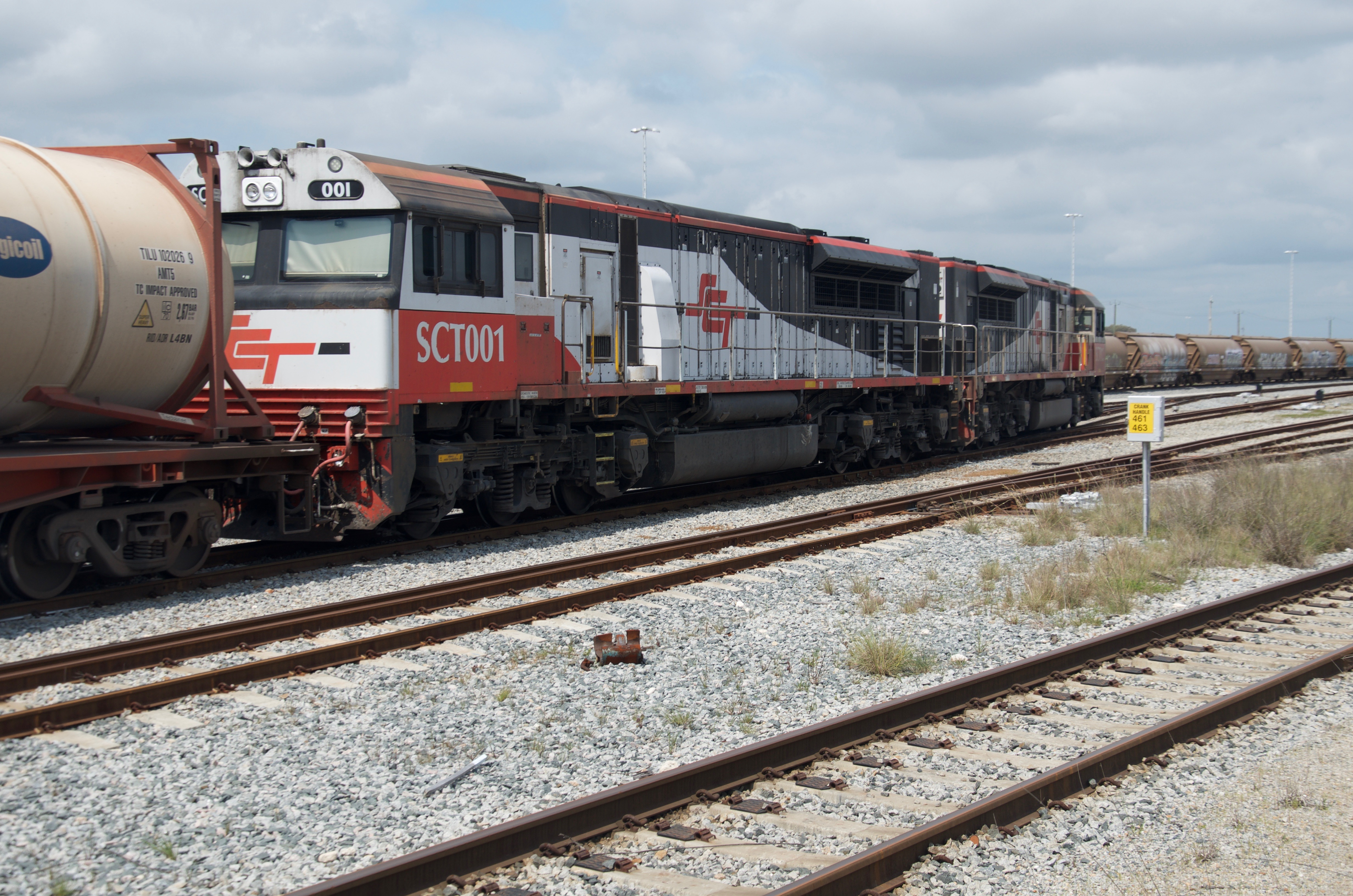 SCT locomotives on 24th September 2018 at Forrestfield, Western Australia after journey with 1.8 km long train from Melbourne in Victoria